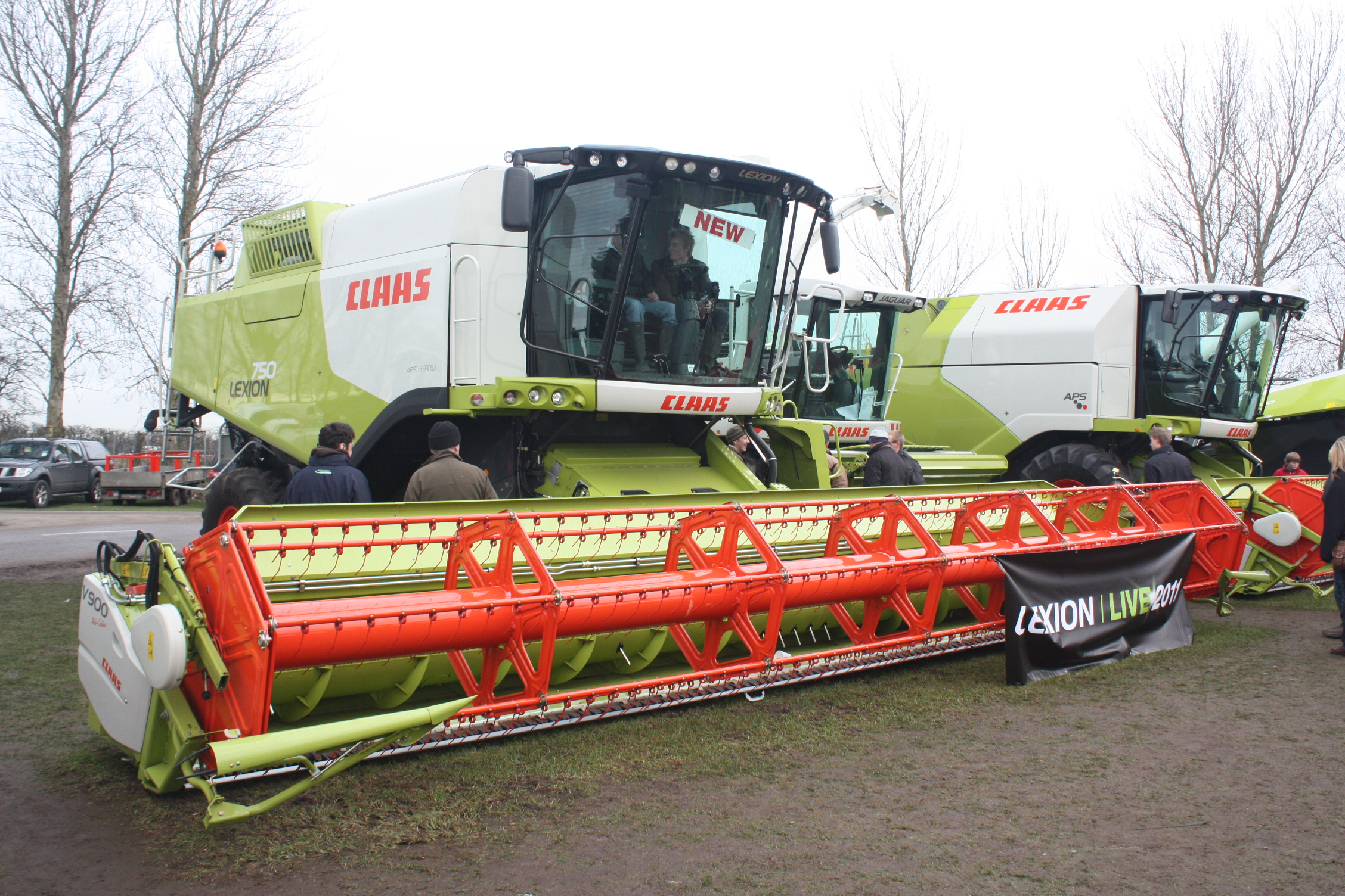 Claas Lexion 750 combine harvester with a Claas V 900 header (9 m working width) at LAMMA 2011, Newark, Nottinghamshire, England. A Claas Jaguar forage harvester (rather hidden) and a Claas Tucano 430 combine on the right.